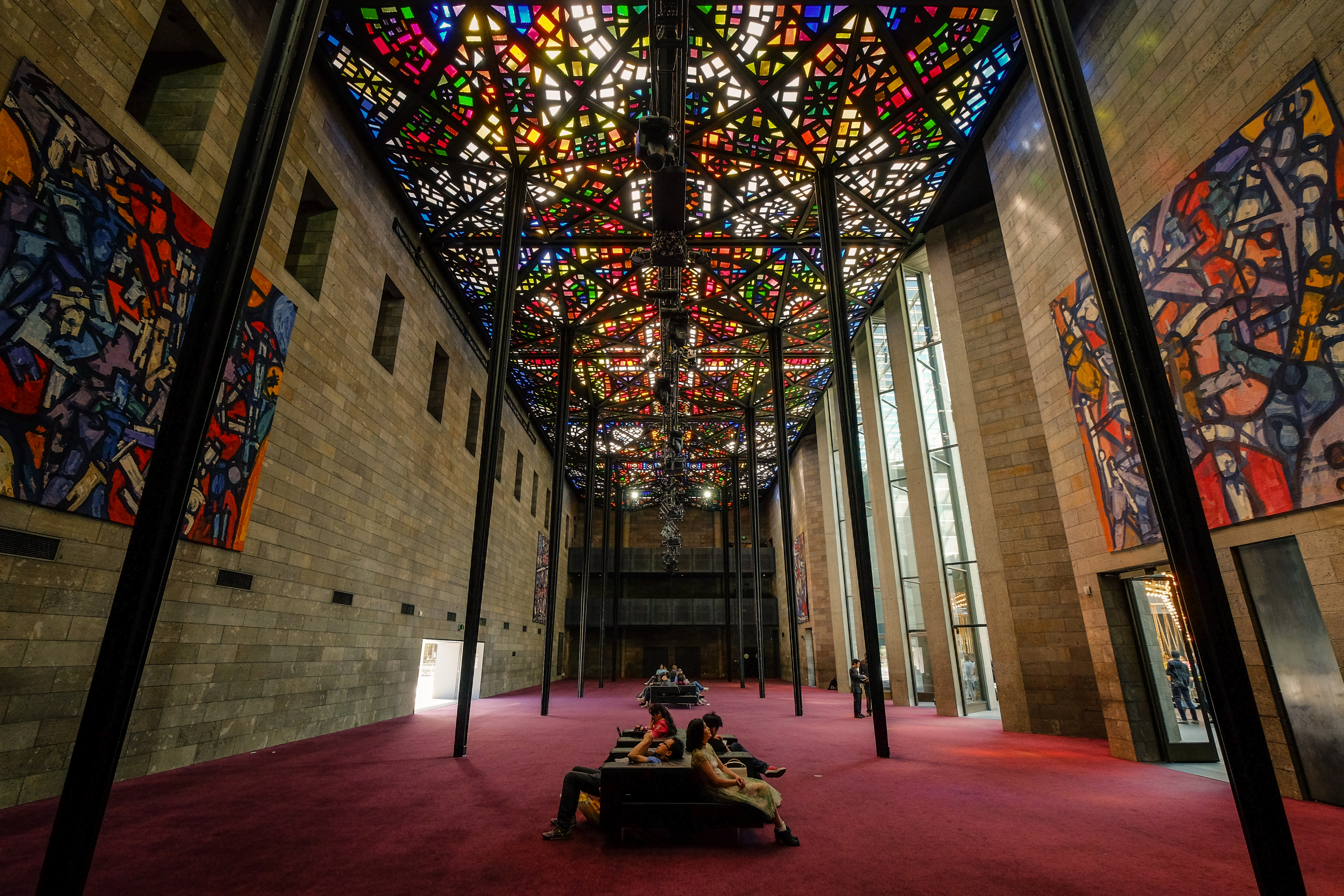 Great Hall, Revisited